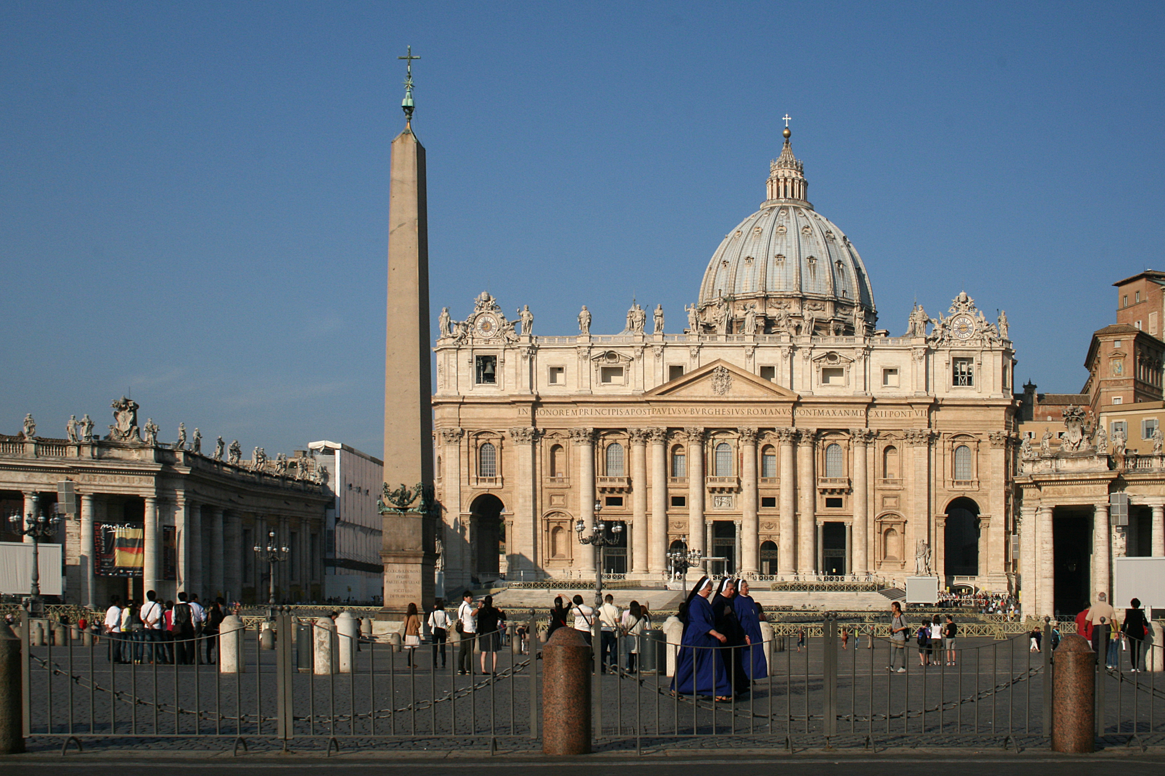 The St. Peter's Square before the St. Peter's Basilica and the Vatican Obelisk.